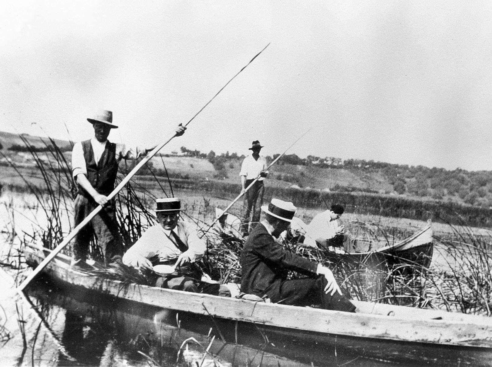 Members of the Malaria Commission of the League of Nations collecting larvae on the Danube delta, 1929 Wellcome Images Keywords: Malaria